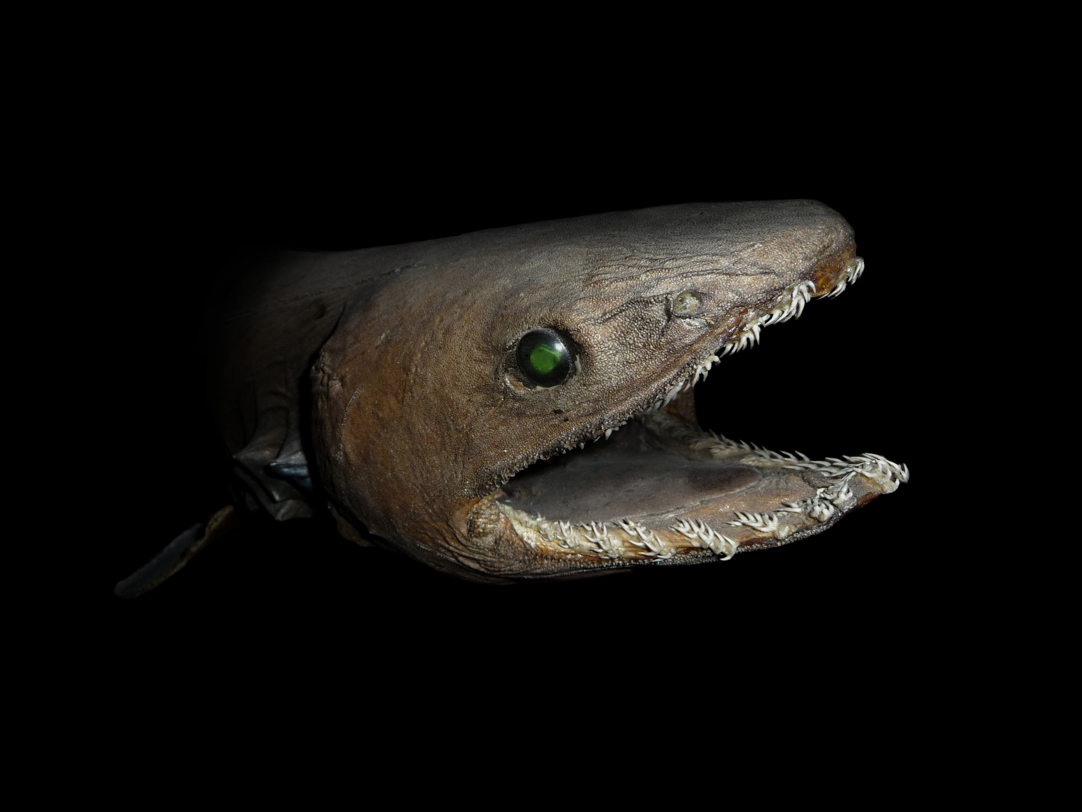 Chlamydoselachus anguineus stuffed at Aquarium tropical du Palais de la Porte Dorée (Paris, France).